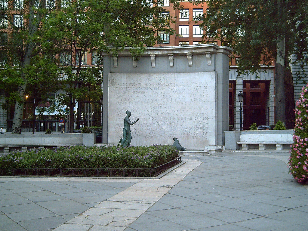 East side of the monument to Eugeni d'Ors (1882-1954) at the Paseo del Prado (boulevard) in Madrid (Spain). A work by his son, architect Víctor d'Ors, and artists Cristino Mallo and Frederic Marès. It was inaugurated on July 17th, 1963. On the white flintstone surface, inscriptions summarize D'Ors thought. In front, a little pond, and in it, two bronze sculptures: a female figure (left) calms down a little dragon (right), symbolizing thus Wisdom facing Ignorance.